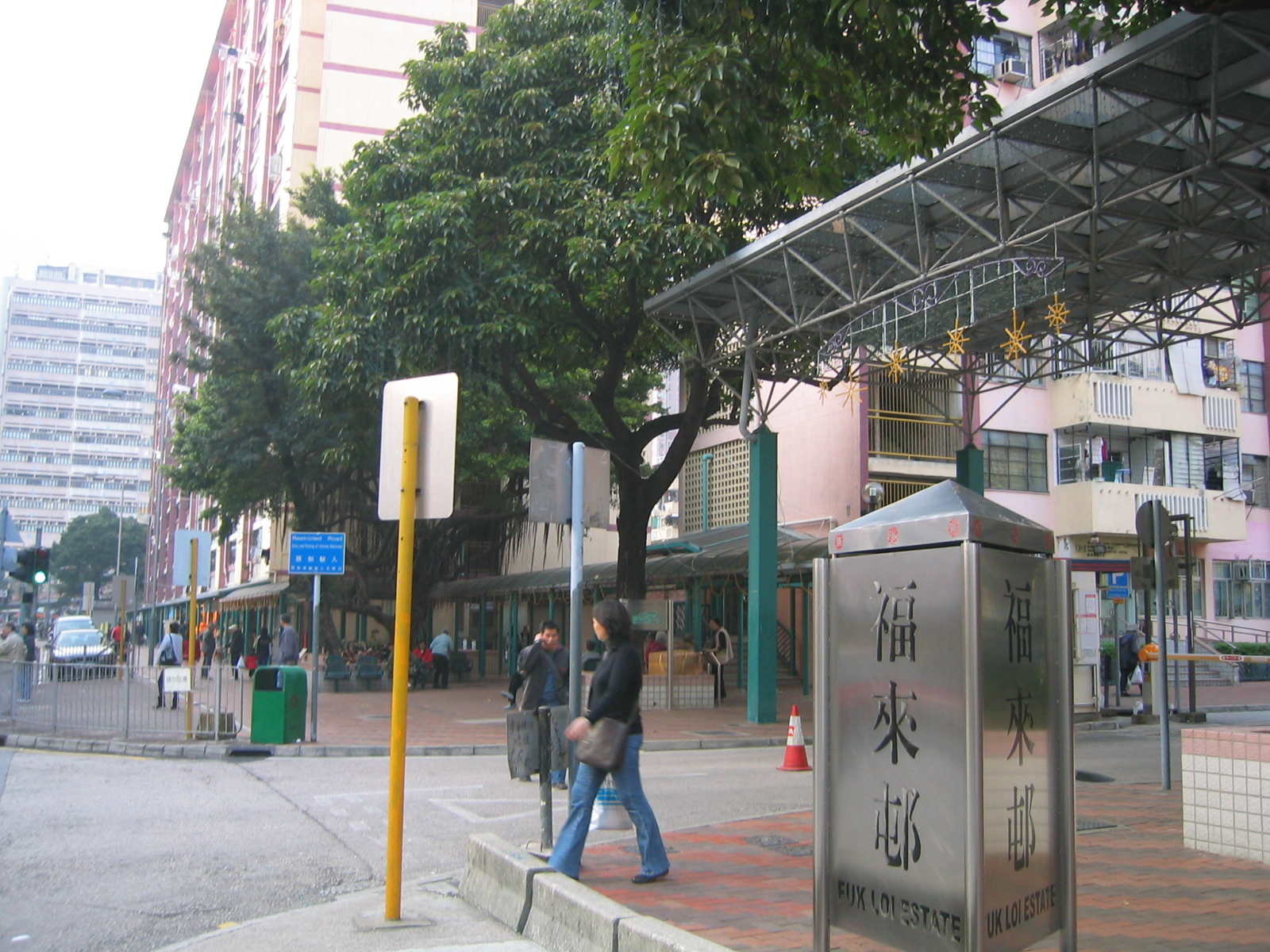 The main entrance of Fuk Loi Estate, Tsuen Wan, Hong Kong.